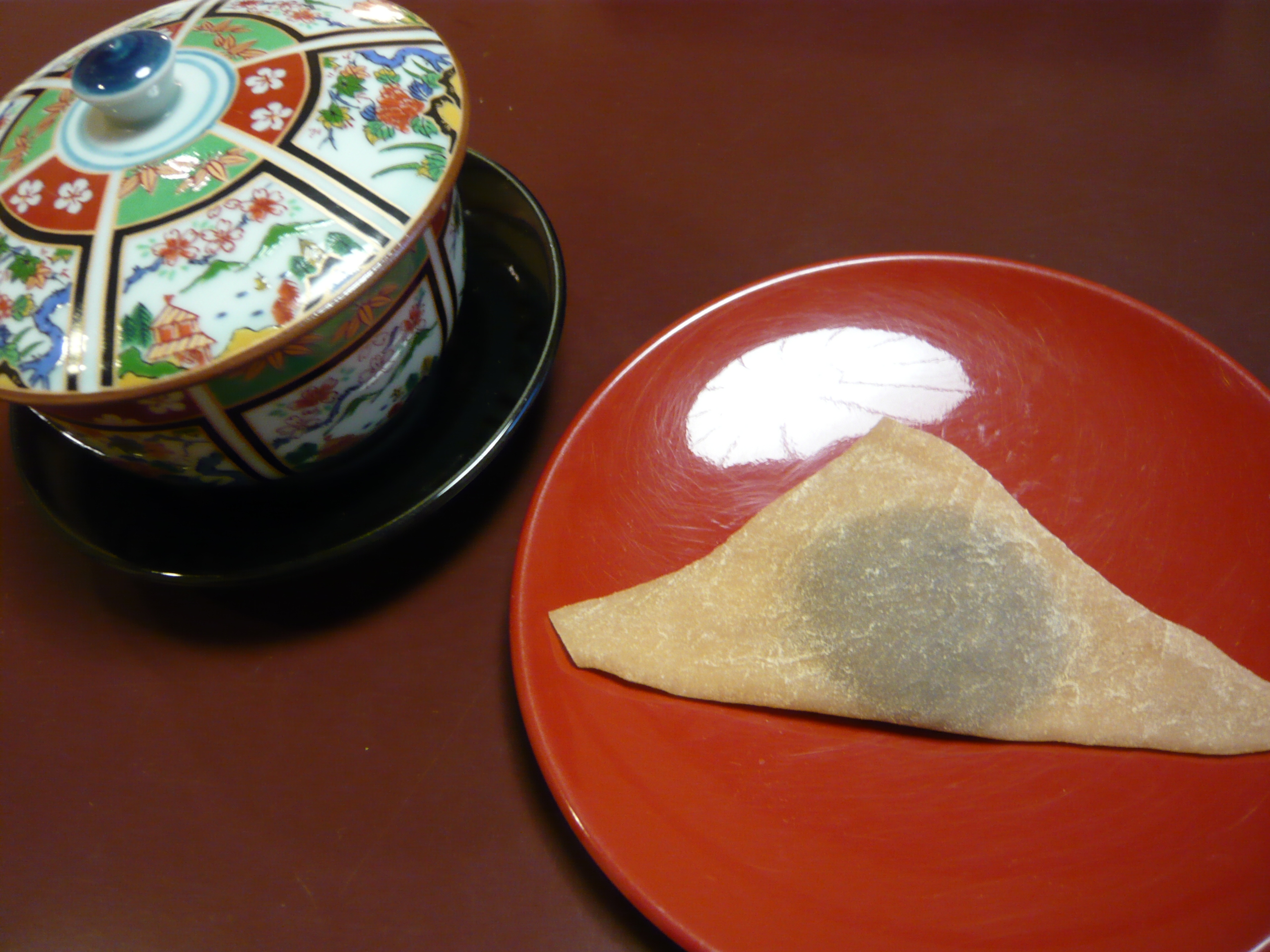 Yatsuhashi and Tea